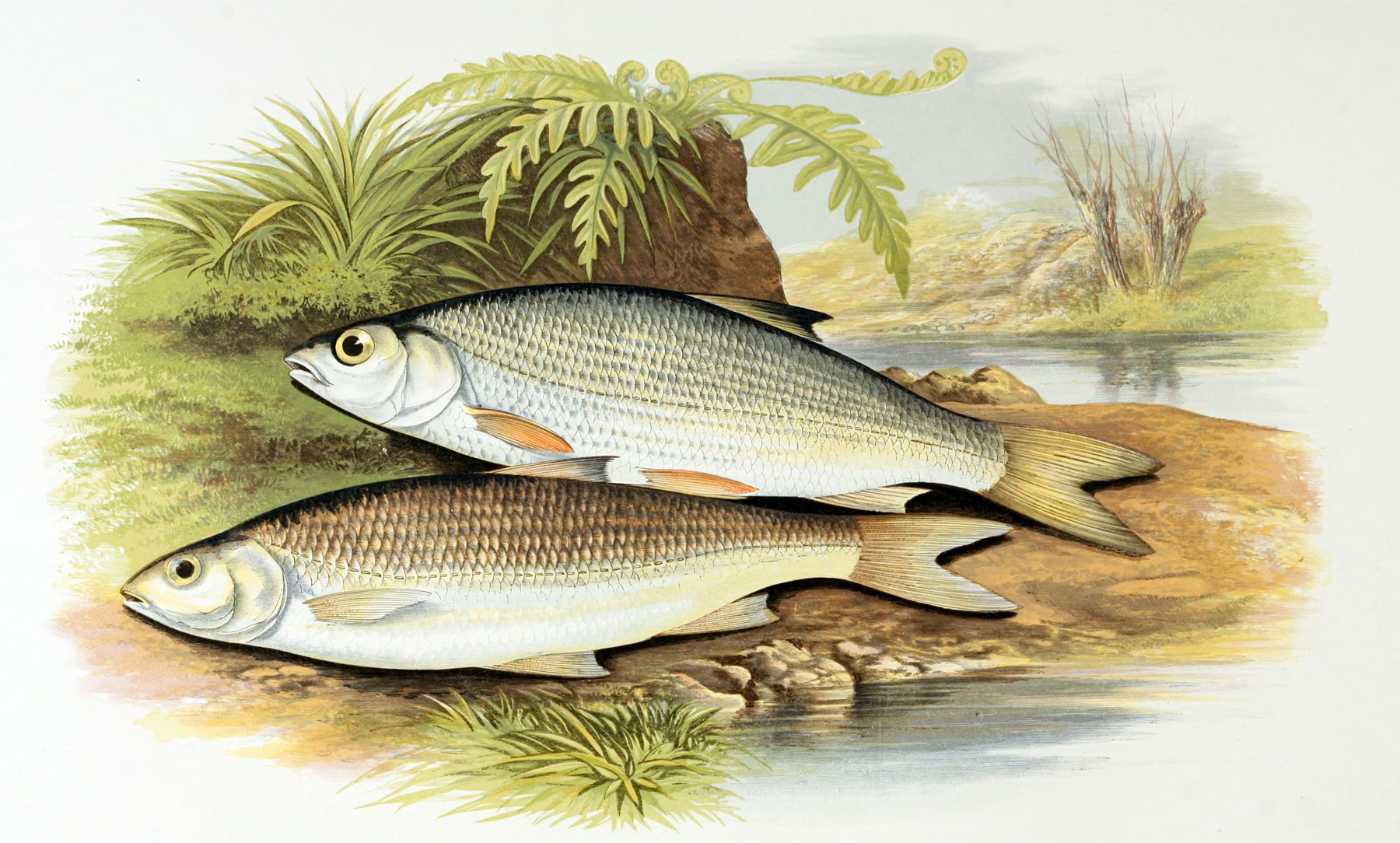 Leuciscus leuciscus